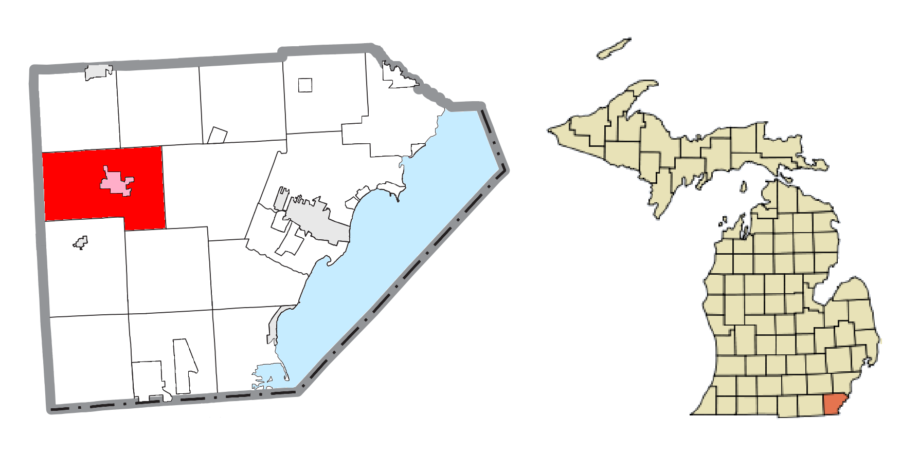 Dundee Township, MI